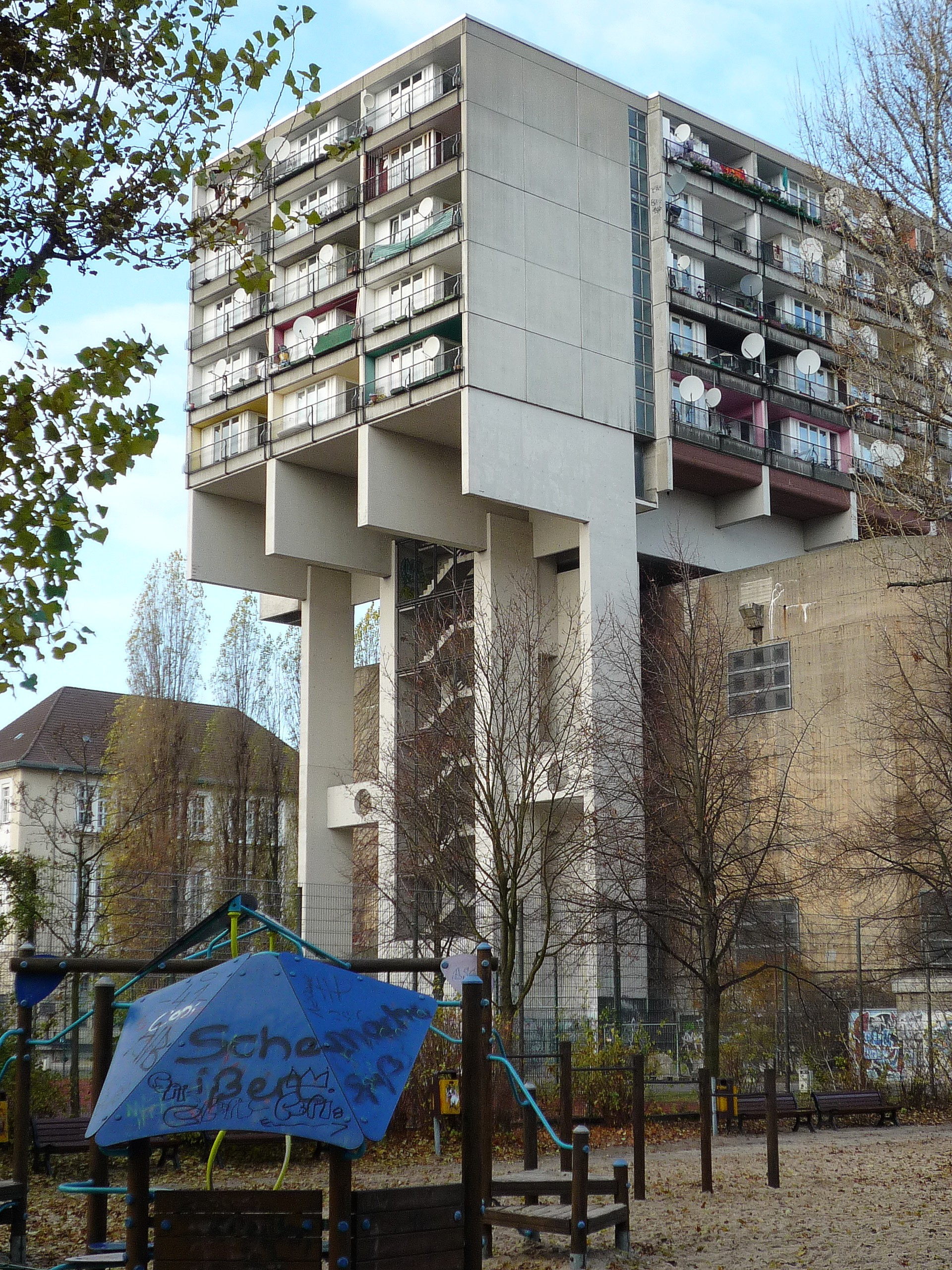 The "Pallasseum", a building in Berlin-Schöneberg. View from Kleistpark.